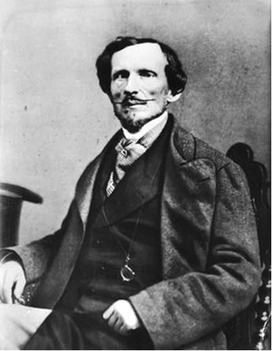 Bettino Ricasoli.